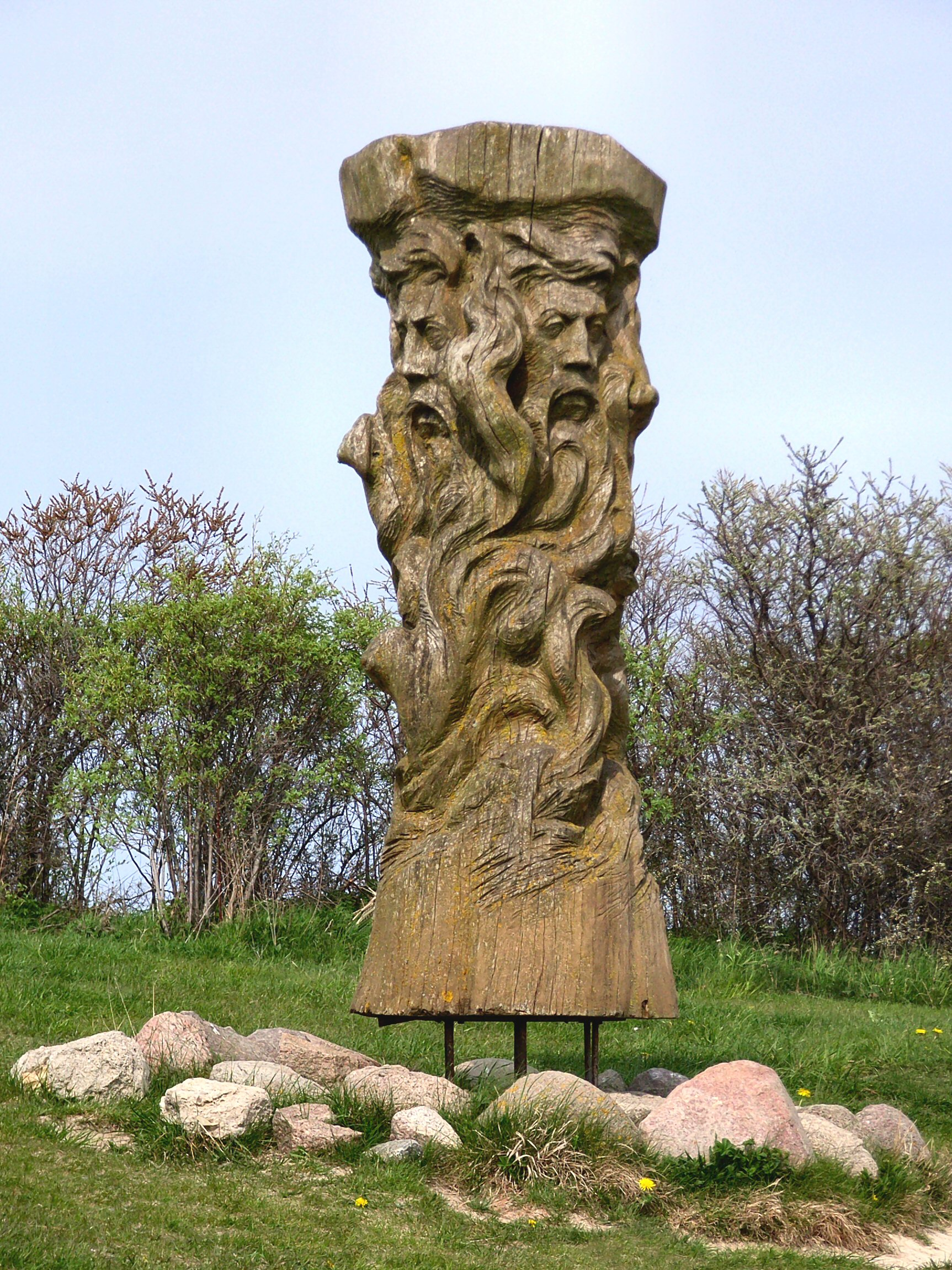 Svantevit-statue made by Marius Grusas at the cape Arkona on the island Rügen (reproduction)